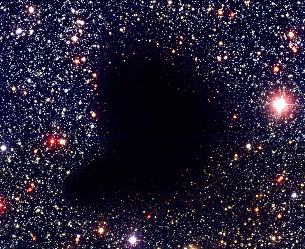 This image shows a colour composite of visible and near-infrared images of the dark cloud Barnard 68. It was obtained with the 8.2-m VLT ANTU telescope and the multimode FORS1 instrument in March 1999. At these wavelengths, the small cloud is completely opaque because of the obscuring effect of dust particles in its interior.